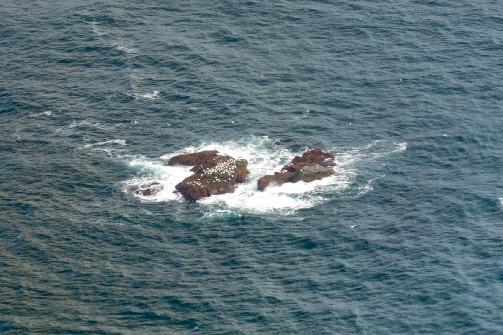 Aerial view of Kolbeinsey from August 2020